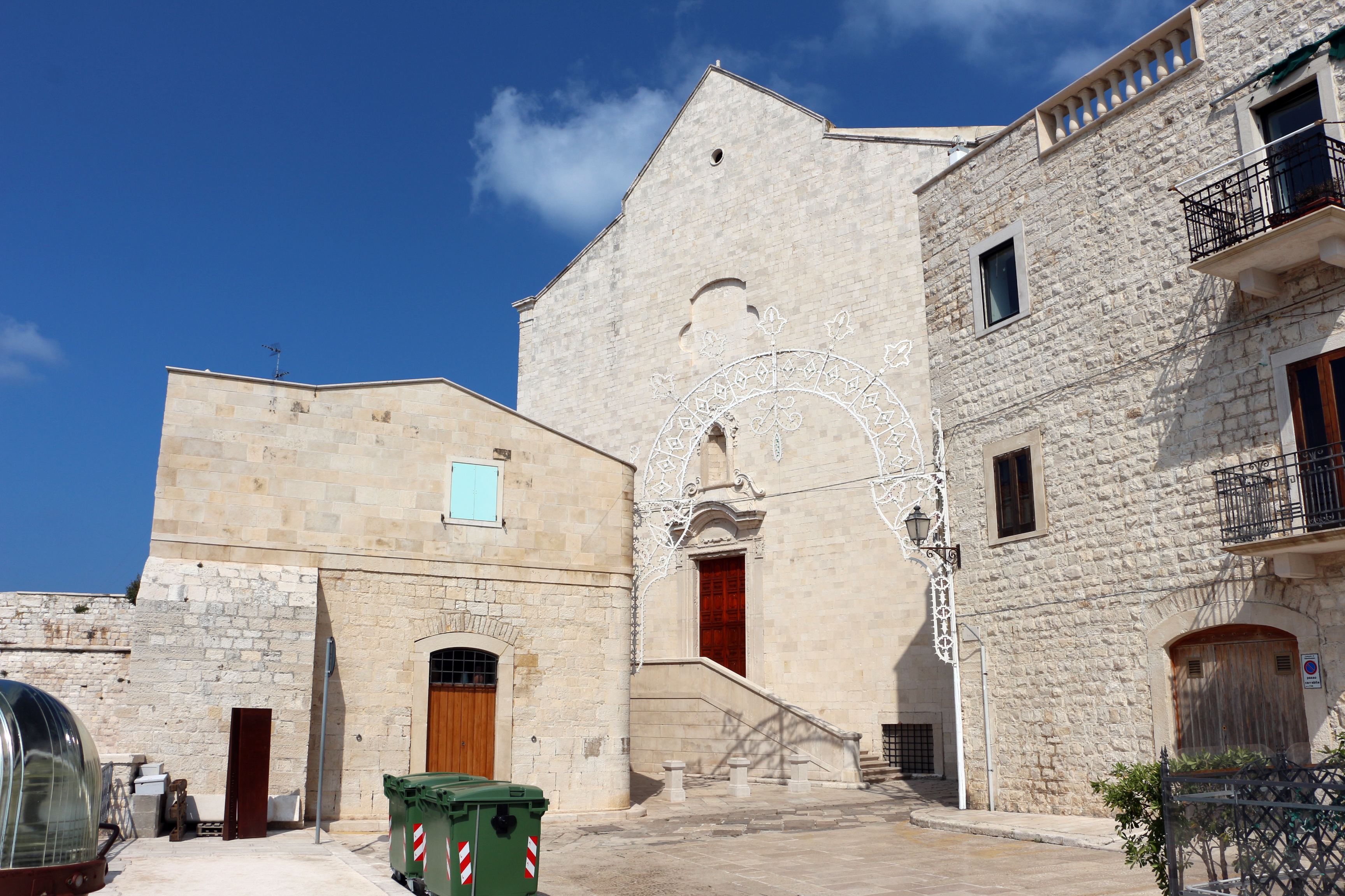 Giovinazzo